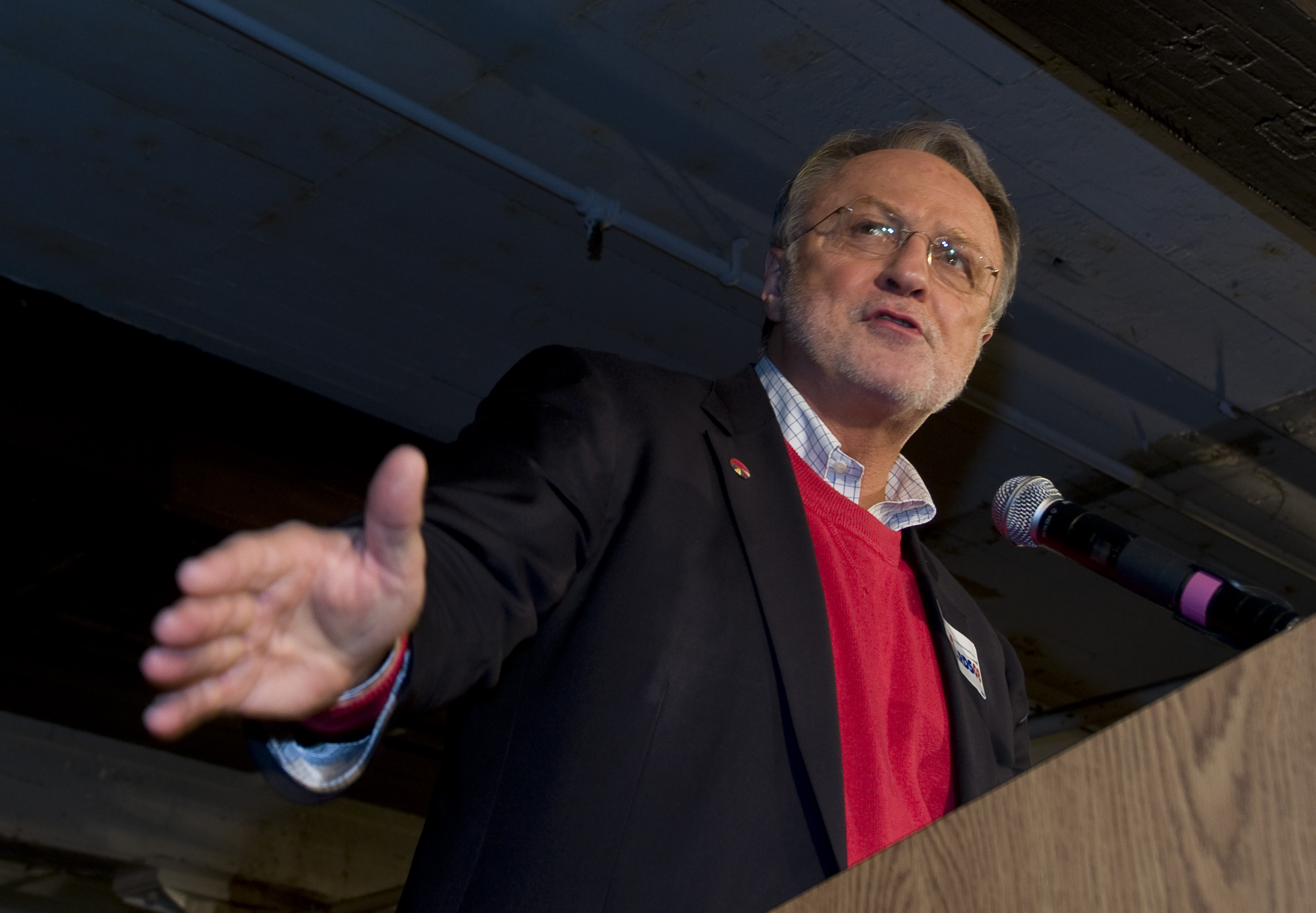 Manchester, NH, January 8, 2008: David Bonior, John Edwards' campaign manager, speaks to supporters. Photo by Peter Smith